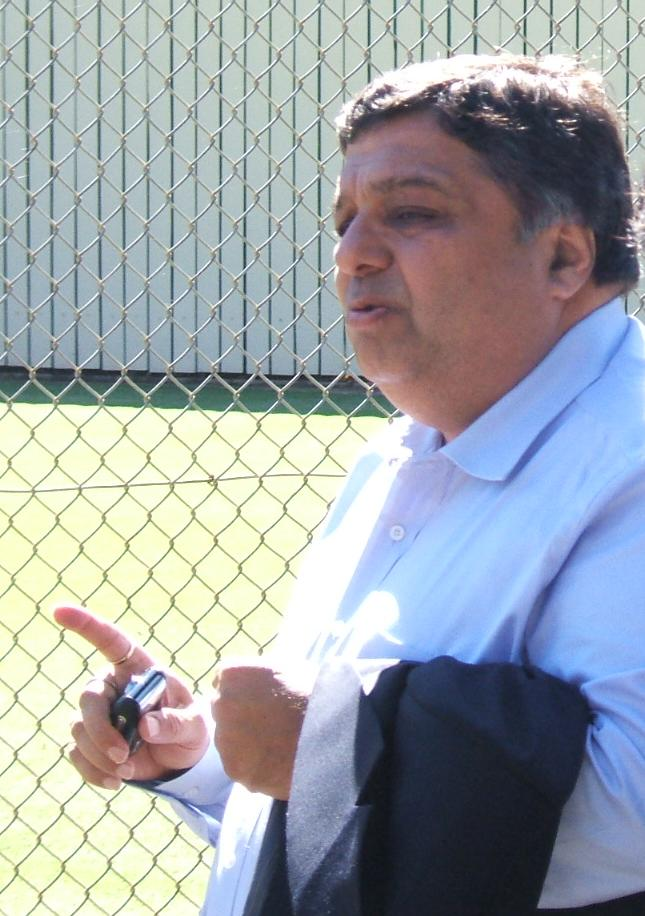 Indian cricket manager at Adelaide Oval